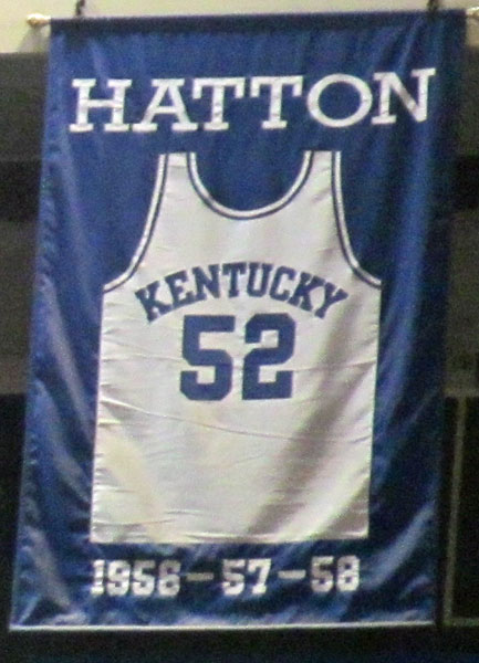 A jersey honoring Vernon Hatton hanging in Rupp Arena in Lexington, Kentucky